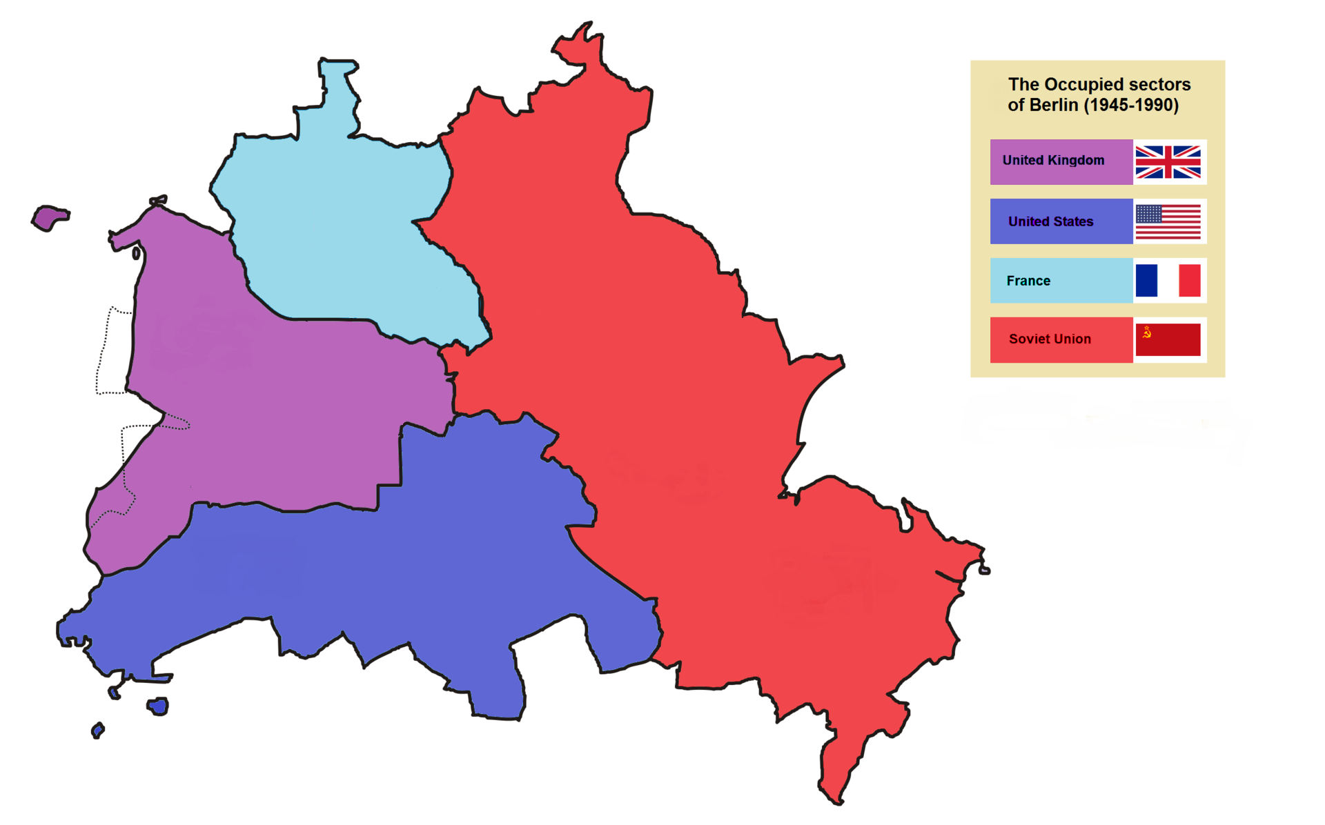 Allied Occupation sectors in Berlin (1945-1990).